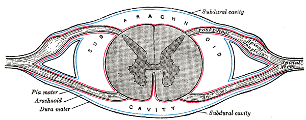 Diagrammatic transverse section of the medulla spinalis and its membranes.